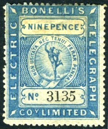 A nine pence telegraph stamp of Bonelli's Electric Telegraph Co. Ltd. from 1861.